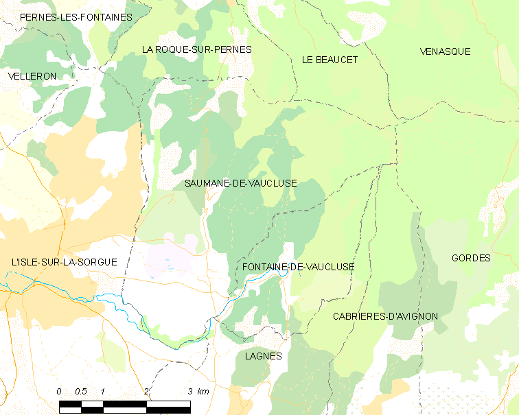 Map of French municipality Saumane-de-Vaucluse